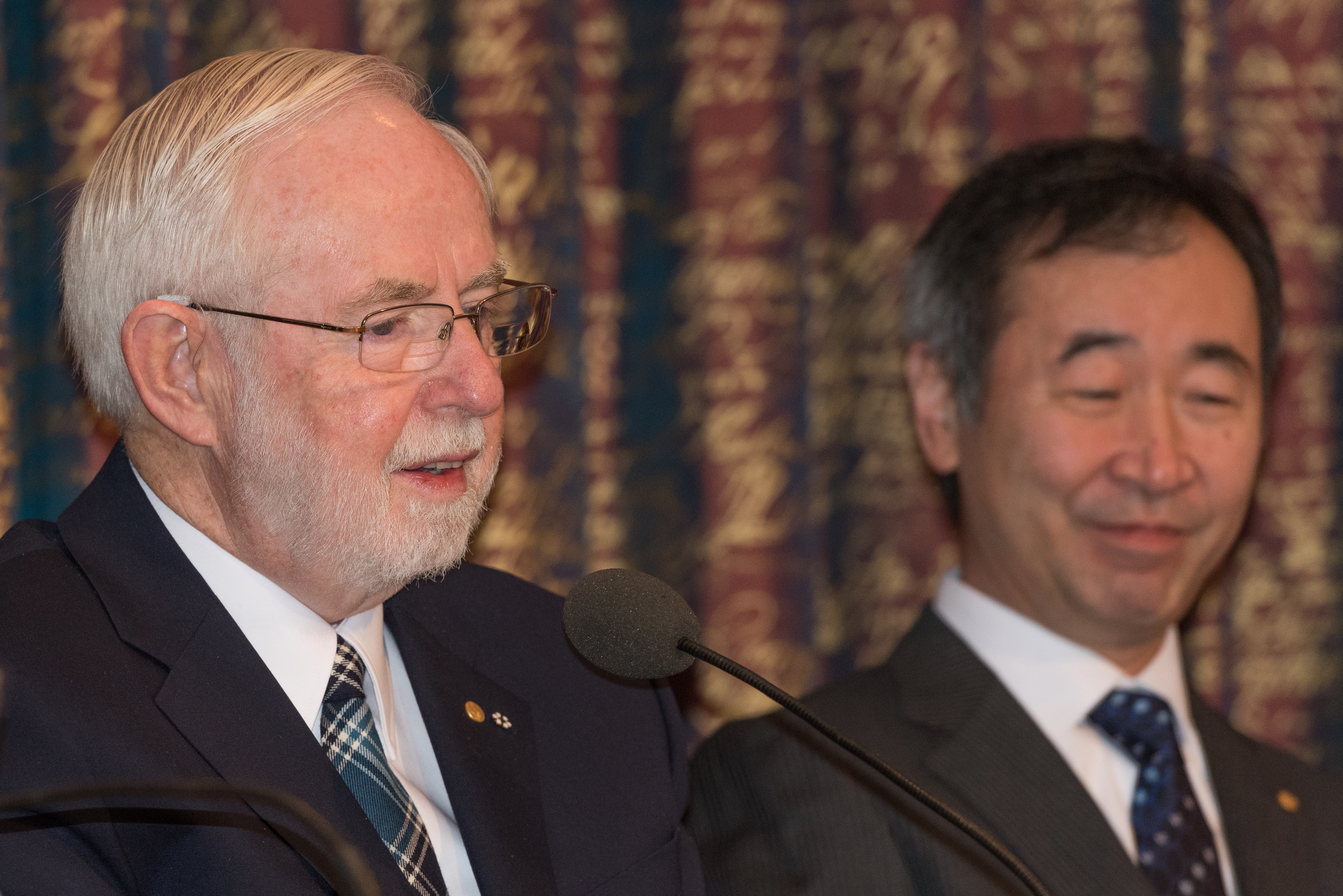 Takaaki Kajita, Nobel Laureate in physics in Stockholm 2015